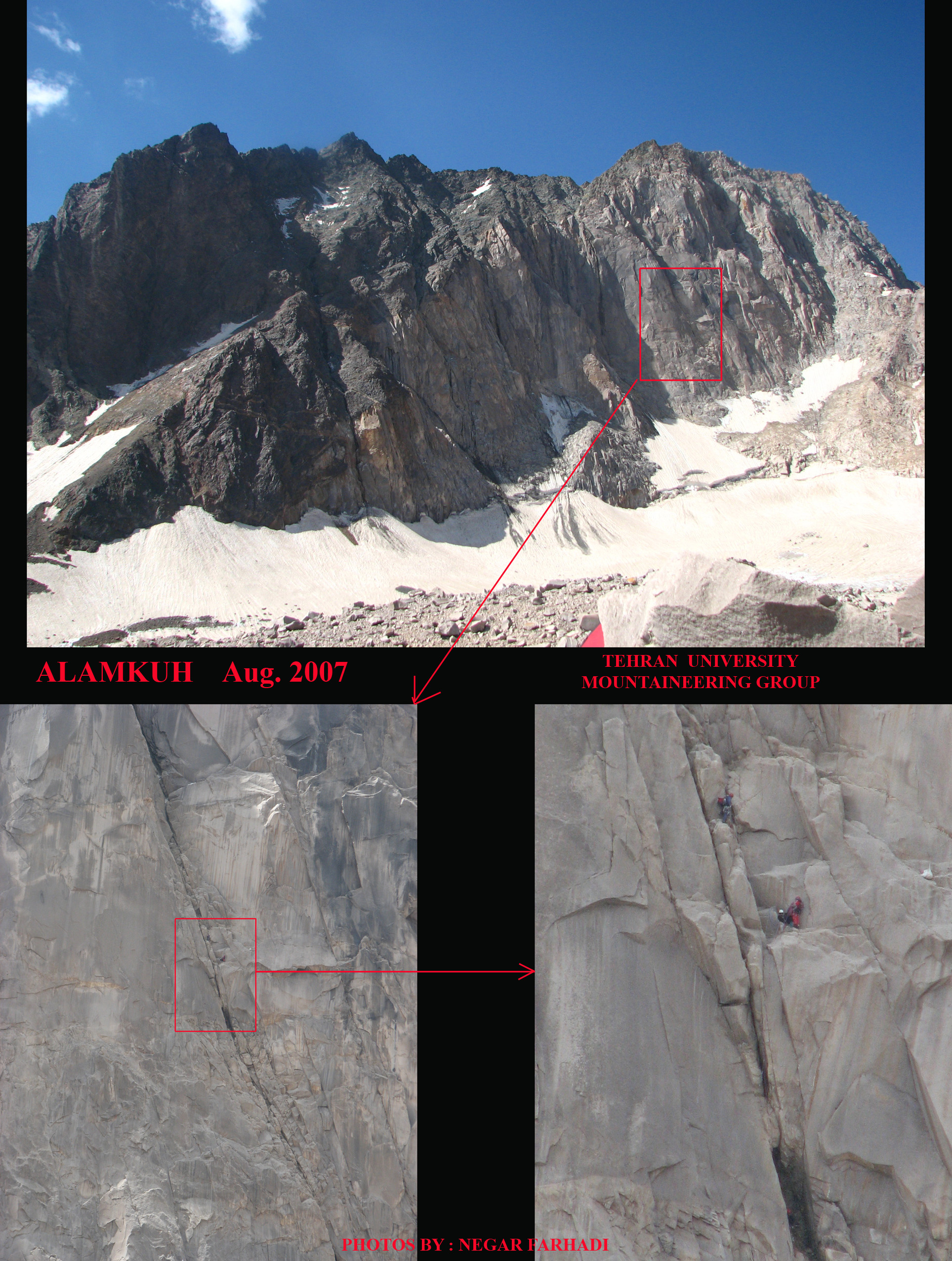 Alborz mountains (ALAMKUH)